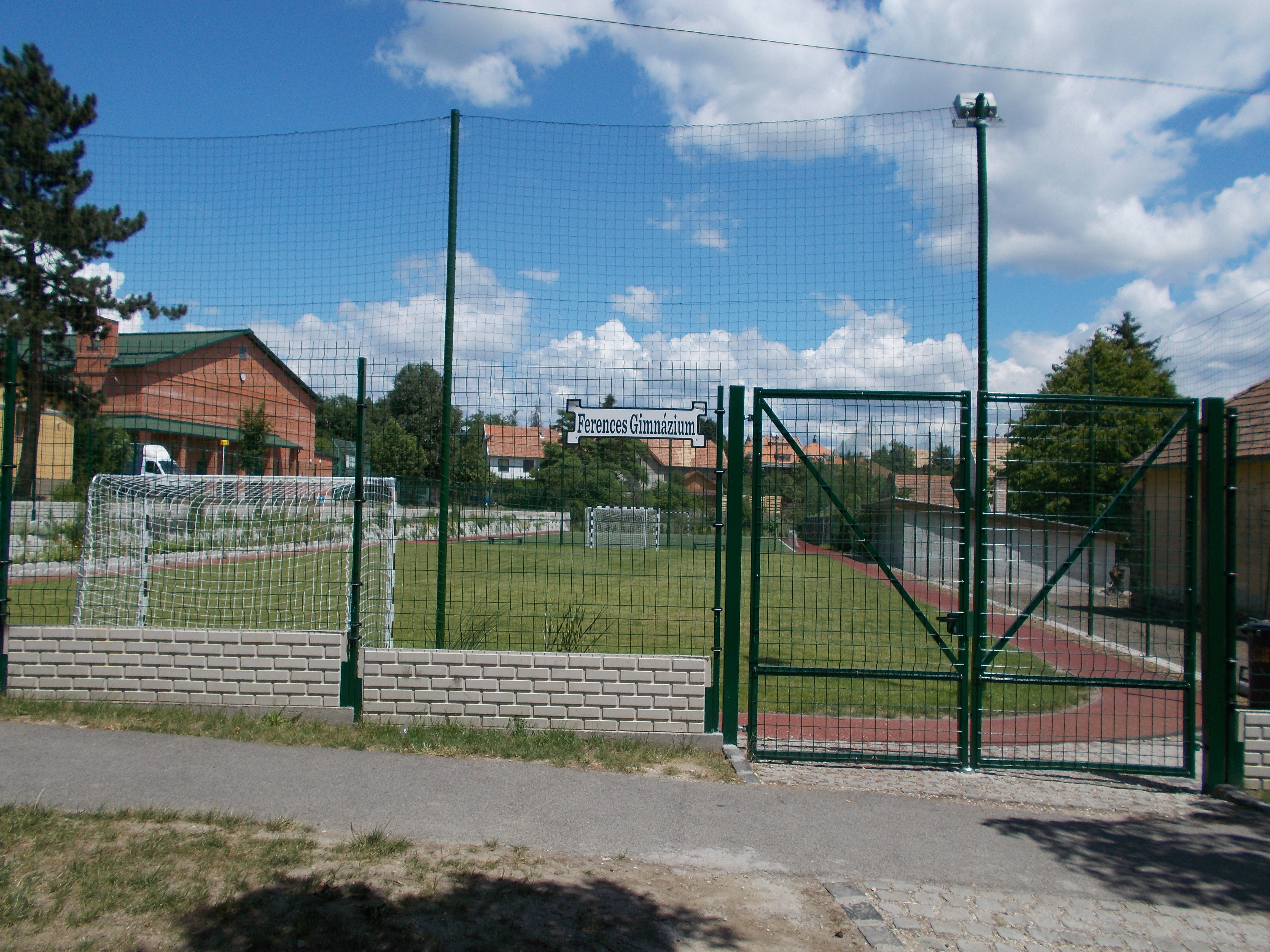 Ferences Gimnázium. Sportpálya. - Szentendre, Áprily Lajos tér 2